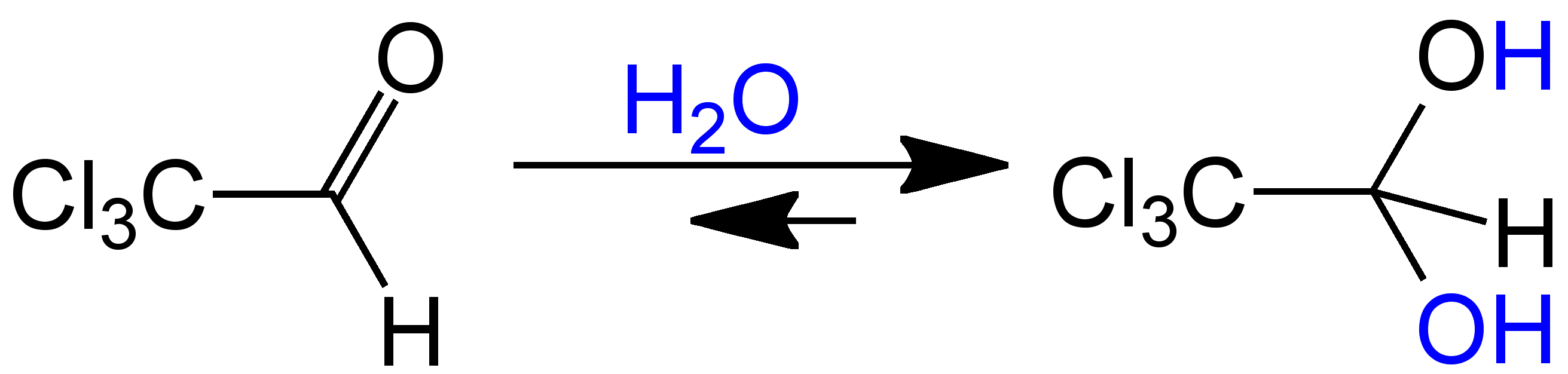 Formation of Chloralhydrate